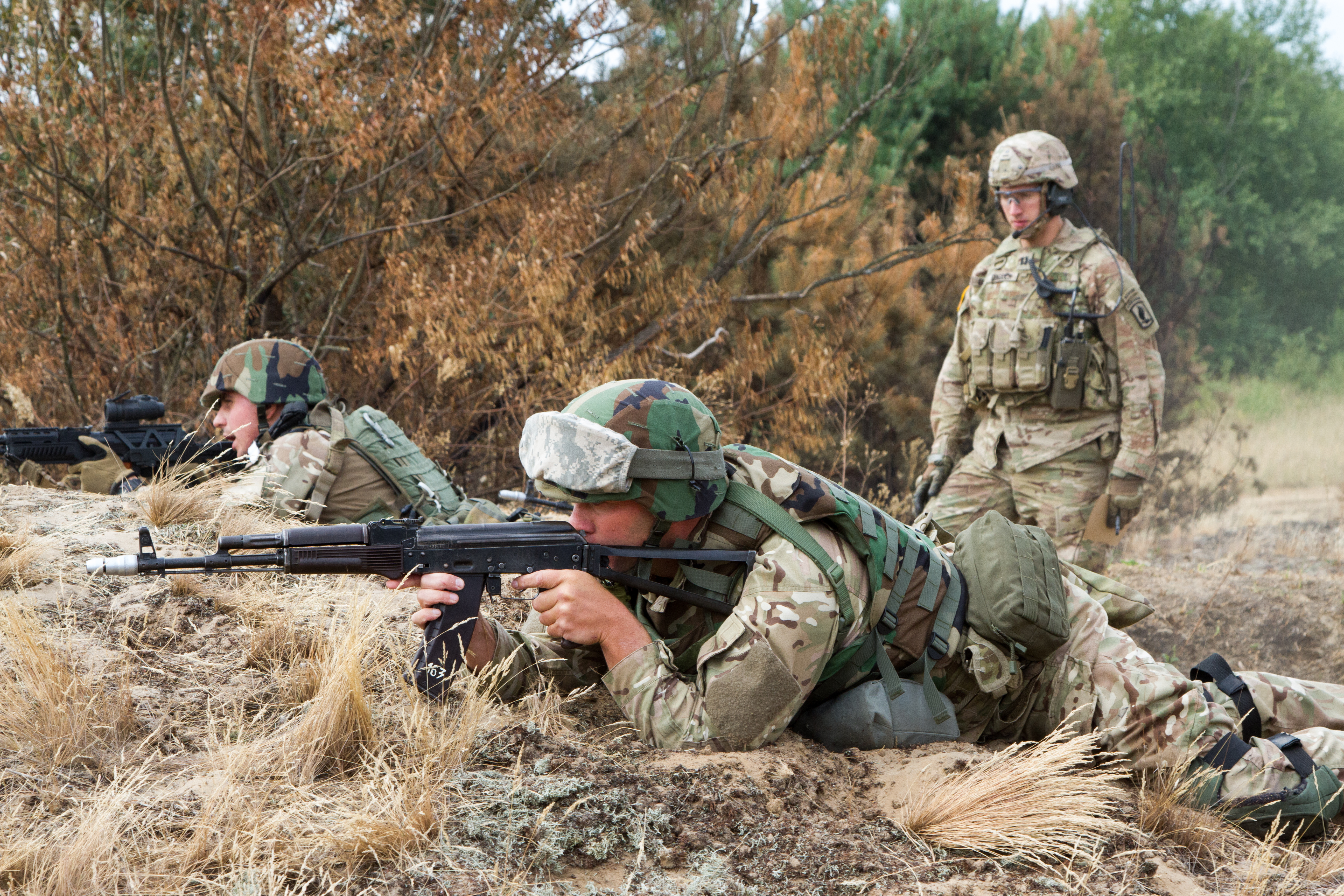 Soldiers with the Ukrainian national guard fire at targets during squad live-fire training Aug. 22, 2015, as part of Fearless Guardian in Yavoriv, Ukraine. Paratroopers with the U.S. Army's 173rd Airborne Brigade have been training the guardsmen for more than a month during the second iteration of Fearless Guardian and have been steadily progressing into more complex training. Paratroopers from the 173rd Abn. Bde. are in Ukraine for the second of several planned rotations to train Ukraine's newly-formed national guard as part of Fearless Guardian, which is scheduled to last through November. (U.S. Army photo by Sgt. Alexander Skripnichuk, 13th Public Affairs Detachment).